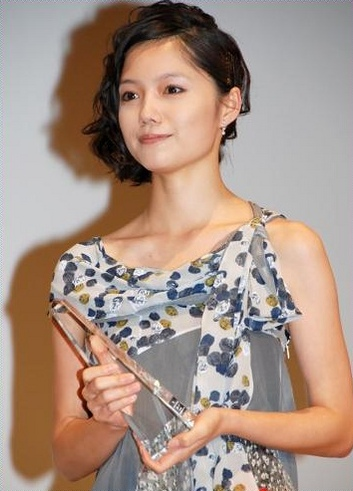 Aoi Miyazaki at the Élan d'or Award in 2009.